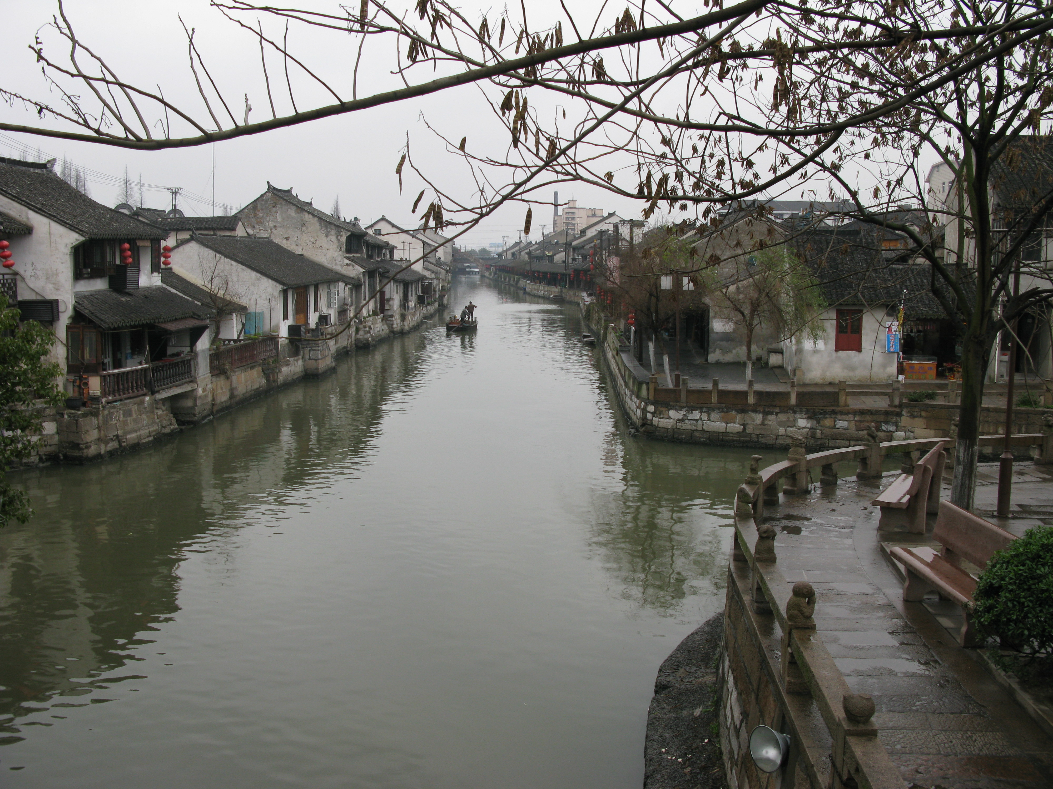 FengJing watertown is a nice daytrip from Shanghai. Larger than WuZhen, a bit less original preserved, but offering slightly more places to visit. (Uploaded a wrong pic last time; this one is geotagged).